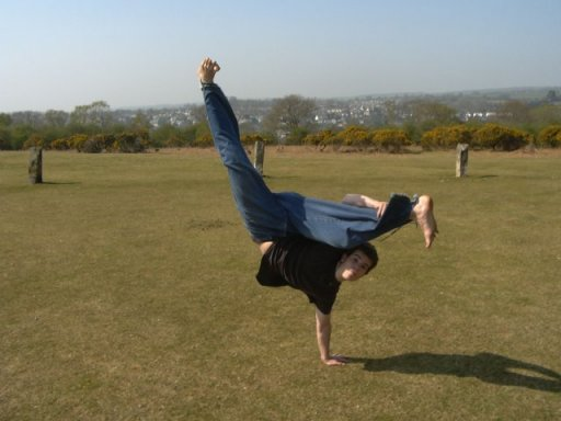 L-kick performed by Iain Johnston.